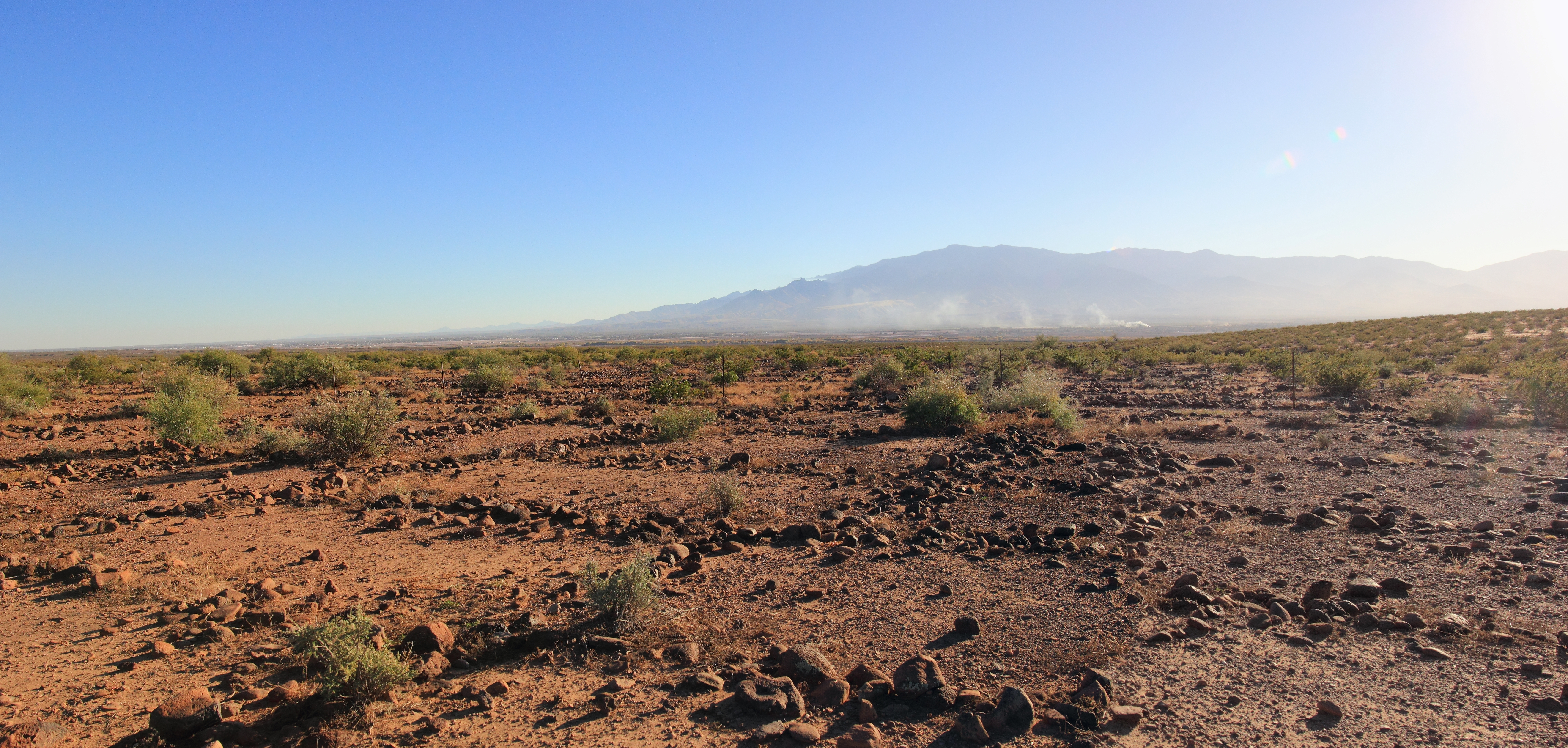 We hiked to the Safford Grids. This is an archeological feature north of the Gila river in Graham county. The grids are what remains of a massive agricultural operation carried out for centuries by native Americans in the area.